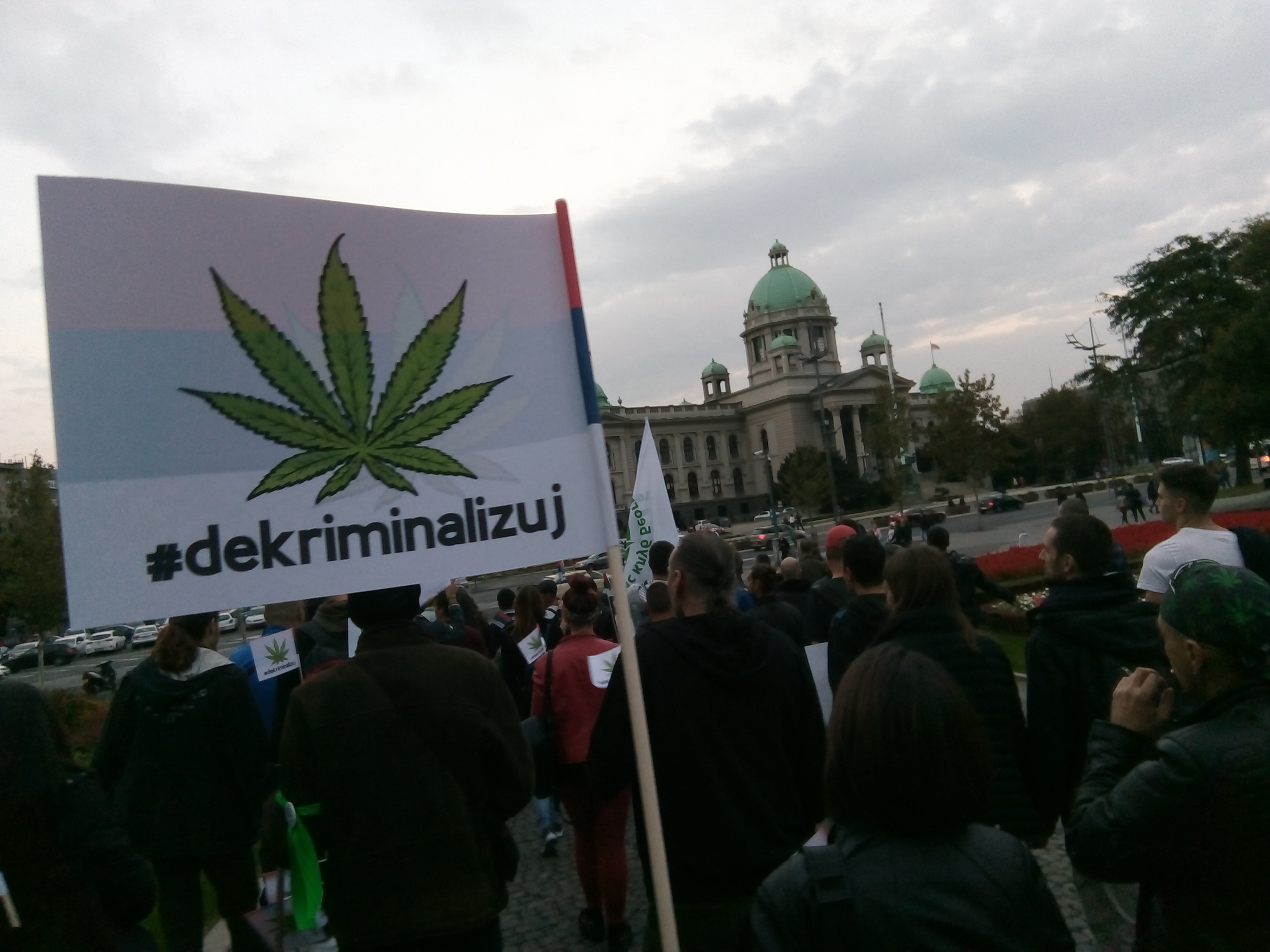 Cannabis March 2018 in Belgrade, Serbia